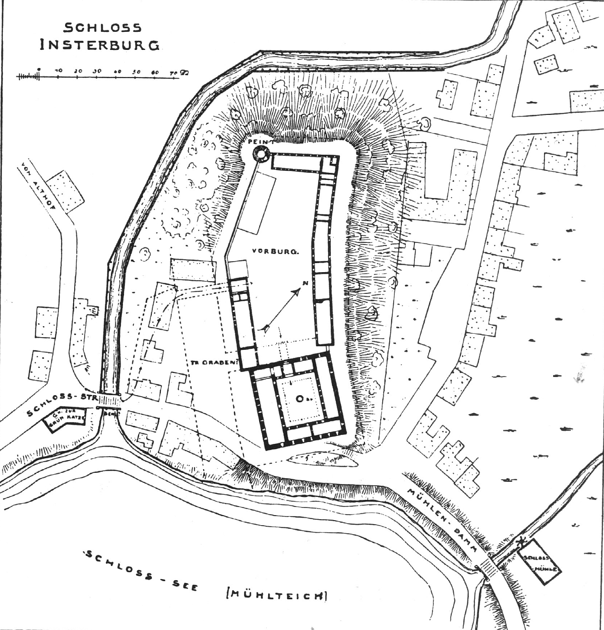 Tschernjachowsk Castle